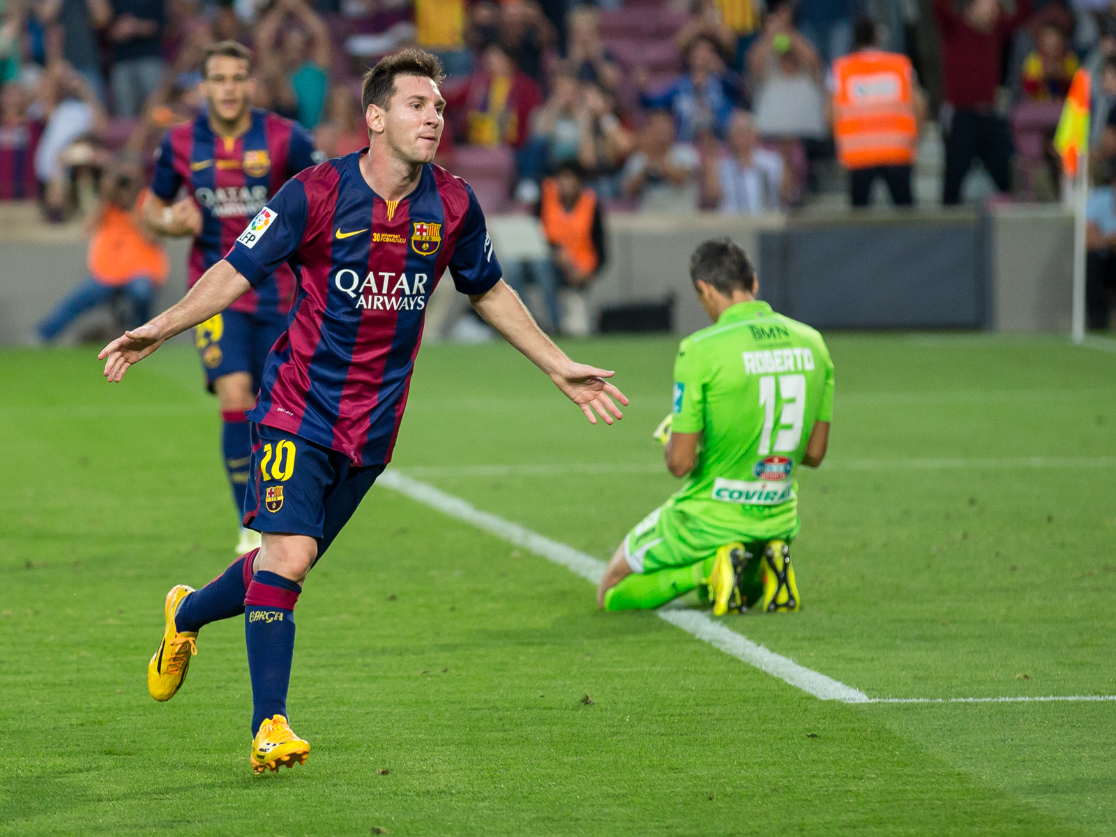 Lionel Messi celebrating scoring a goal against Granada CF in October 2014.